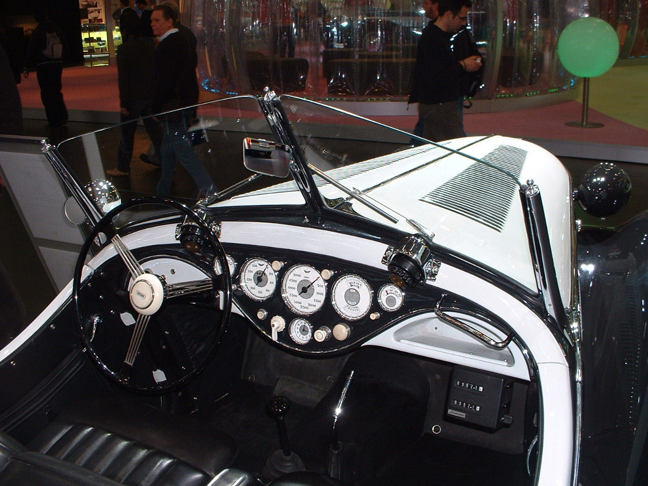 Lovely 1930s 4-ringed open tourer at Techno Classica Essen in 2007.